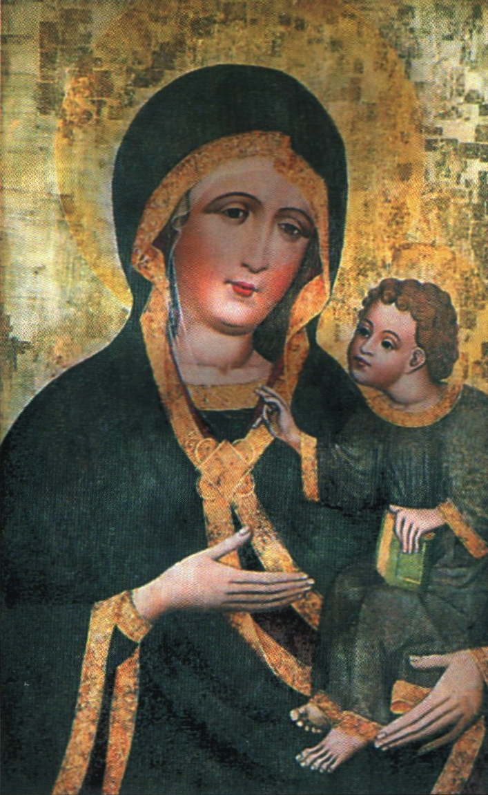 The gothic painting of Our Lady of Good Path (Pol. Matka Boża Dobrej Drogi) from the church in Wojkowice Kościelne, Poland.